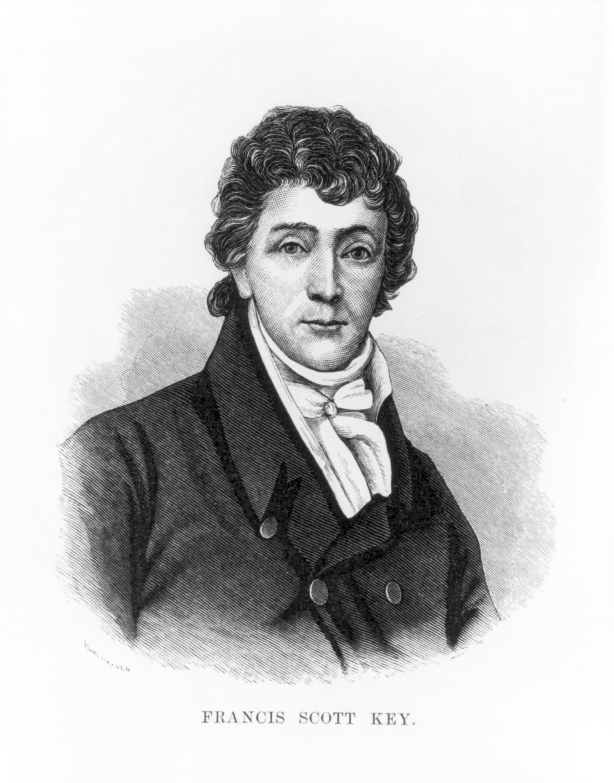 Francis Scott Key